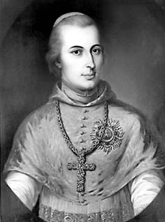 Archduke Karl Ambrosius of Austria-Este, Prince Archbishop of Esztergom (Hungary) 1785-1809